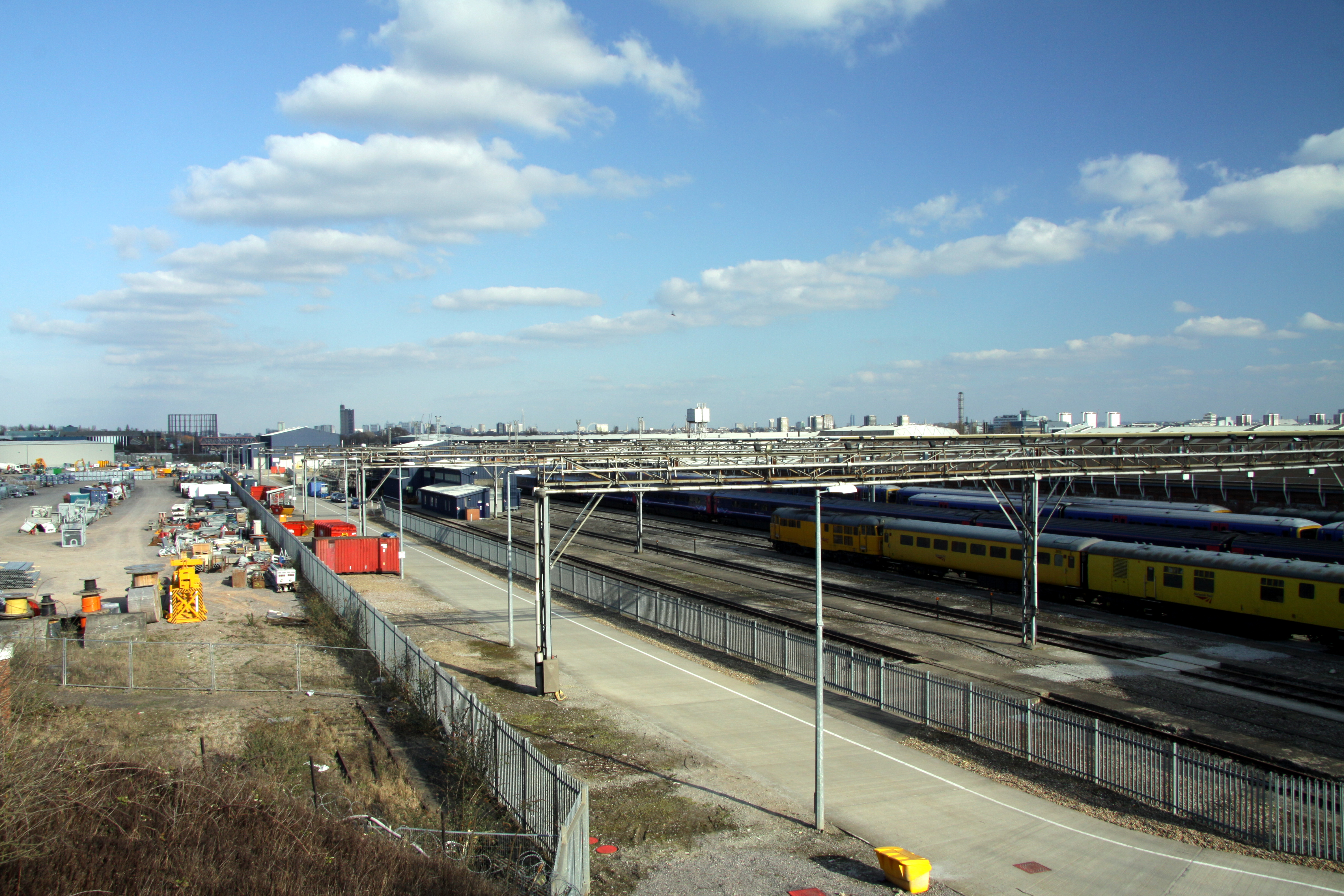 Old Oak Common Traction Maintenance Depot from Old Oak Common Lane, London, England, Great Britain.